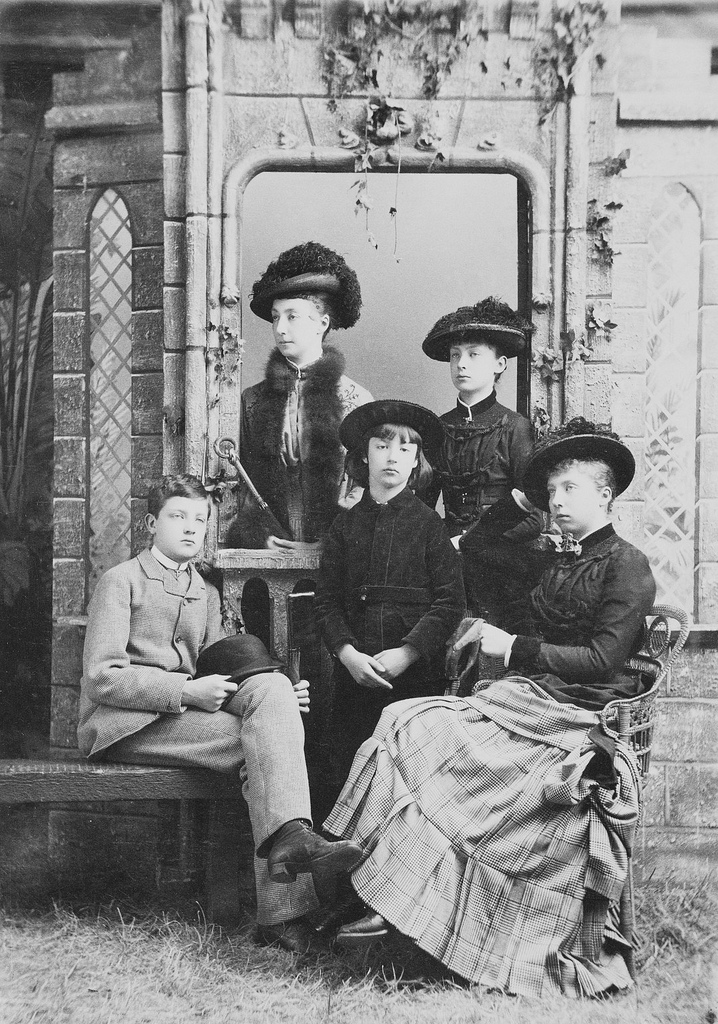 Françoise of Orléans (1844–1925), Duchess of Chartress with her children